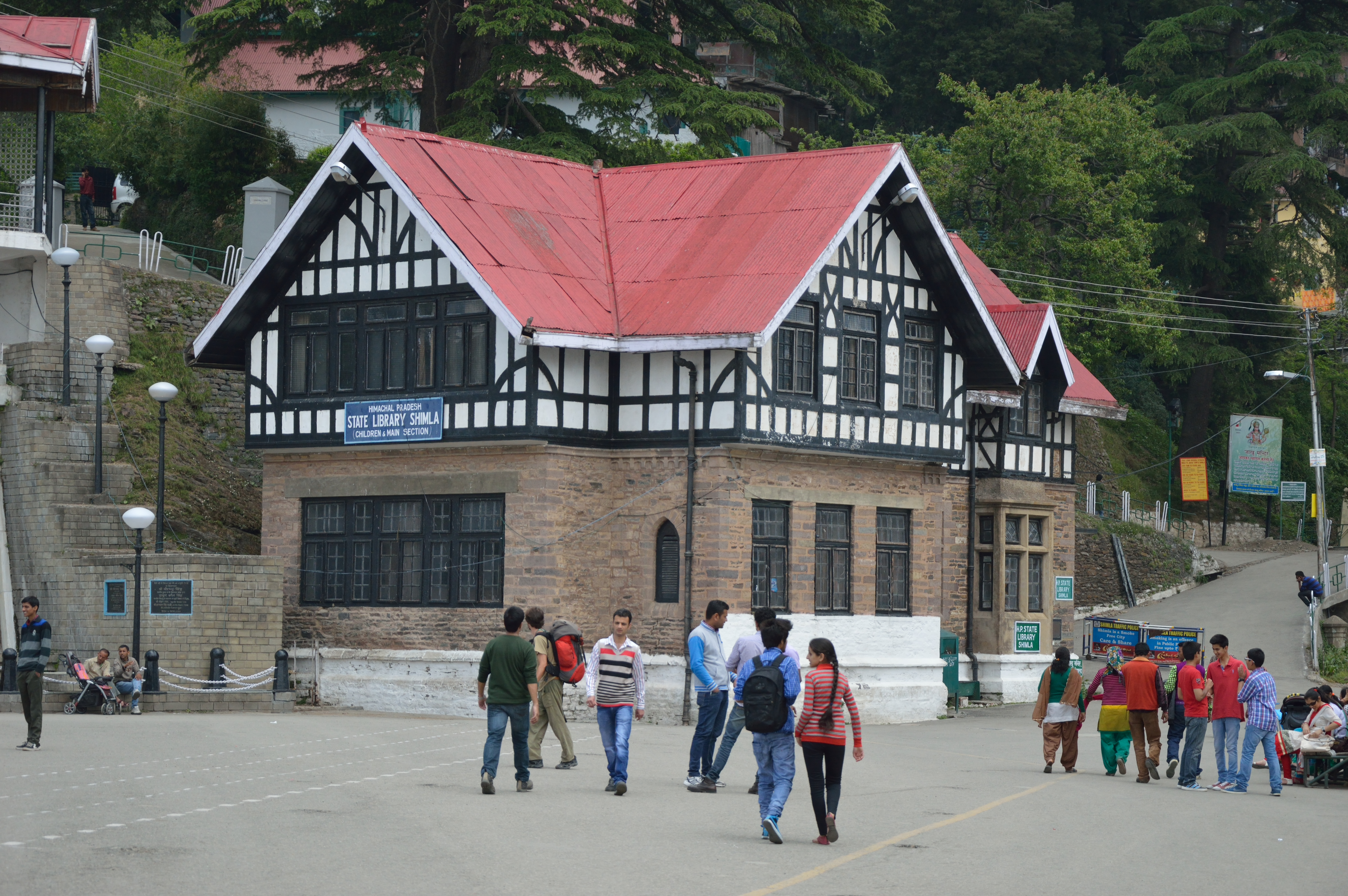 The State Library of Shimla. This photograph has been uploaded during the 'Wiki Loves Monuments 2014' from India.